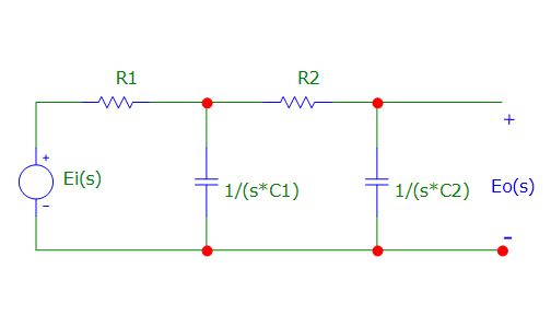 CKT RC Ordem 2 no Domínio Frequência